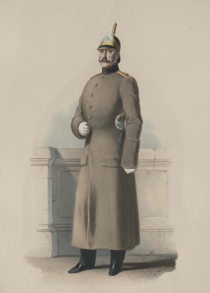 Nicholas I of Russia